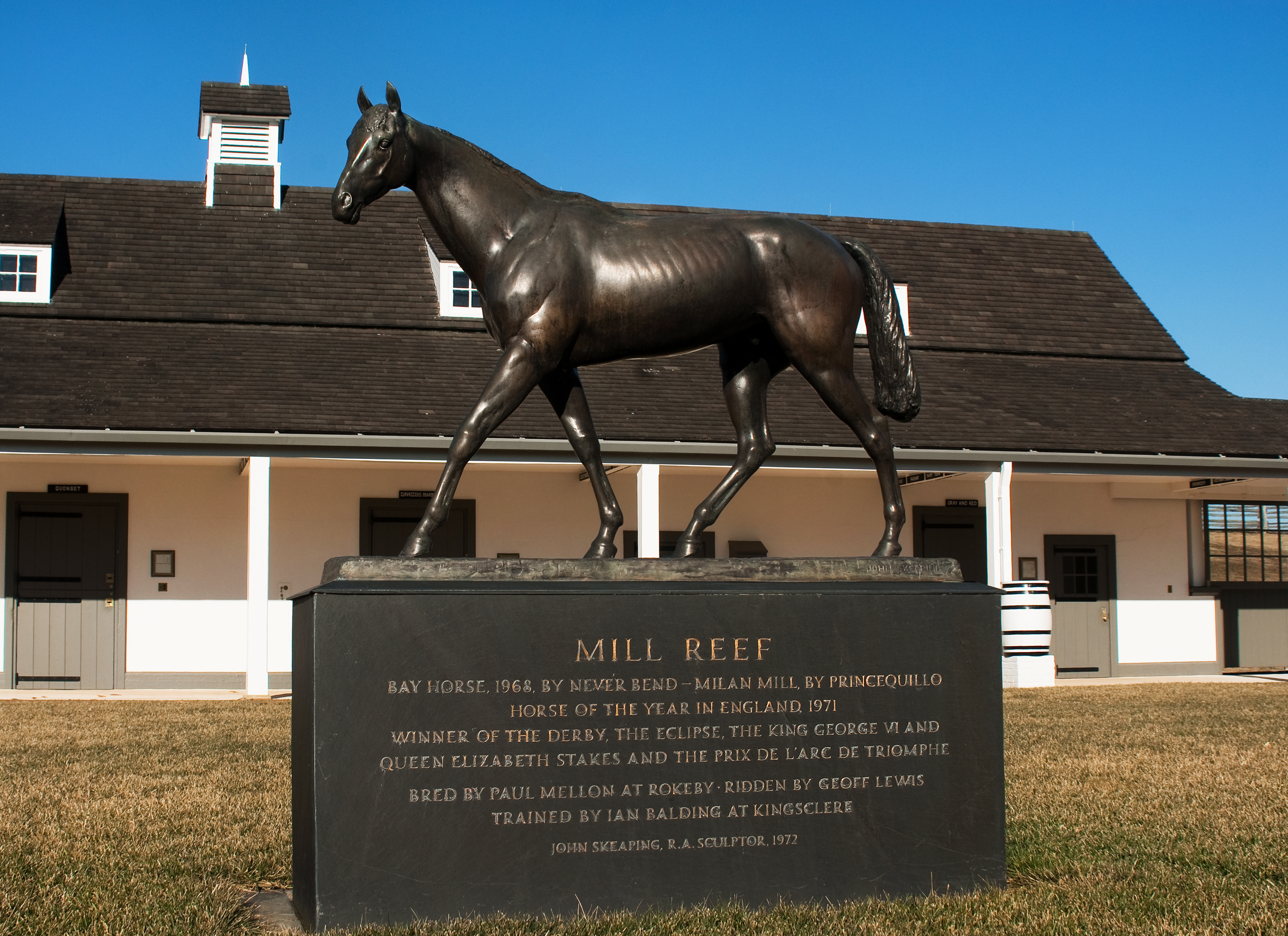 Statue of the racehorse "Mill Reef" (1968–1986) — at Rokeby Stables, in Upperville, Fauquier County, northeastern Virginia. "Mill Reef" was bred at Rokeby Stables, founded in the 1940s by his owner and breeder, Paul Mellon. 1972 bronze statue by English sculptor John Skeaping.